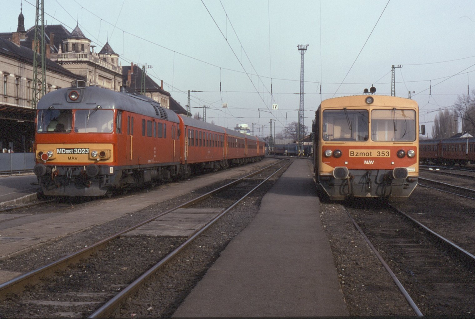 Taken on my trip around Hungary in February 1998 I spent a few days in the area around Pécs. On 4 February 1998 MDmot power car 3023 is seen at the rear of train 8134, 14:30 Pécs to Villány. Classified asy Motor Luggage Vans, these worked push pull with distinctive matching coaches. To the right is Bzmot no. 353.The MDmots have since been withdrawn from service.